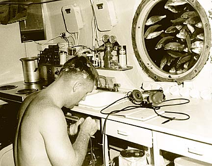 American aquanaut and engineer Berry L. Cannon inside the SEALAB II underwater habitat at 205 feet depth off La Jolla, California, working on the headset of the helium pitch voice unscrambler. Cannon has electrodes on his head for medical monitoring. Dents in the chow mein noodle can under the bench are due to high pressure in the Sealab habitat. Cannon would later die of carbon dioxide poisoning during the SEALAB III project. From Credited to Associated Press, but caption reads "Diver Berry Cannon is shown inside SeaLab in this U.S. Navy handout photo taken on Sept. 5, 1965." The photo was also published in the books Groups Under Stress, Living and Working in the Sea, and Challenge of the Seven Seas.